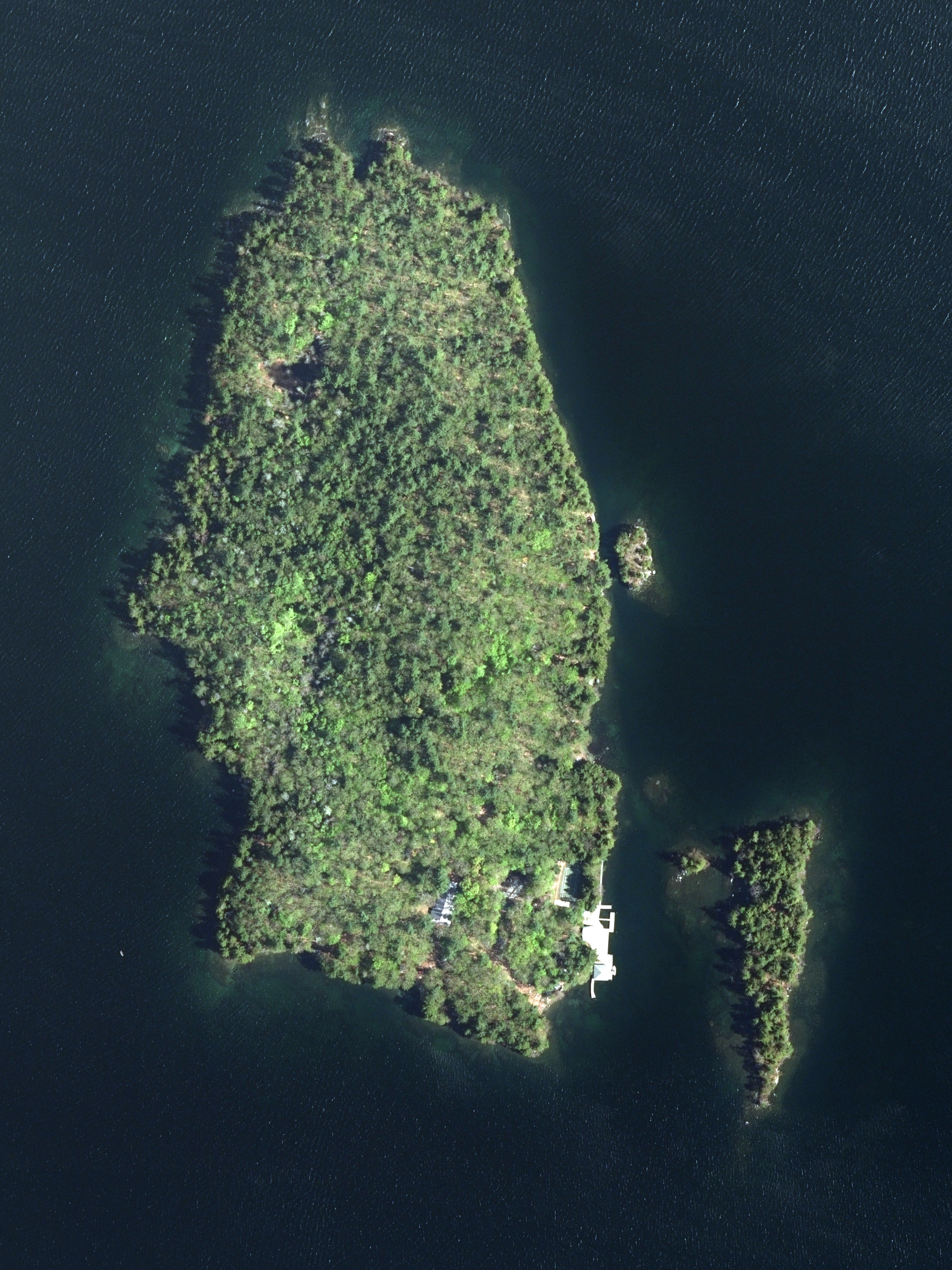 Three Mile Island on Lake Winnipesaukee, New Hampshire. USGS High Resolution Orthoimagery, taken between 6 May 2015 and 14 May 2015.